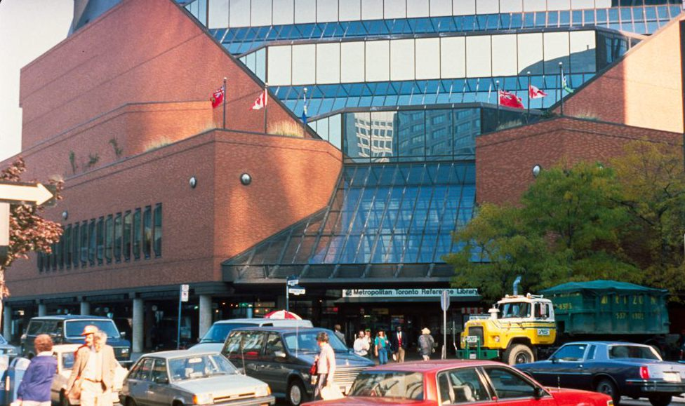 The (then) Metropolitan Toronto Reference Library on Yonge Street in Toronto, Ontario, Canada